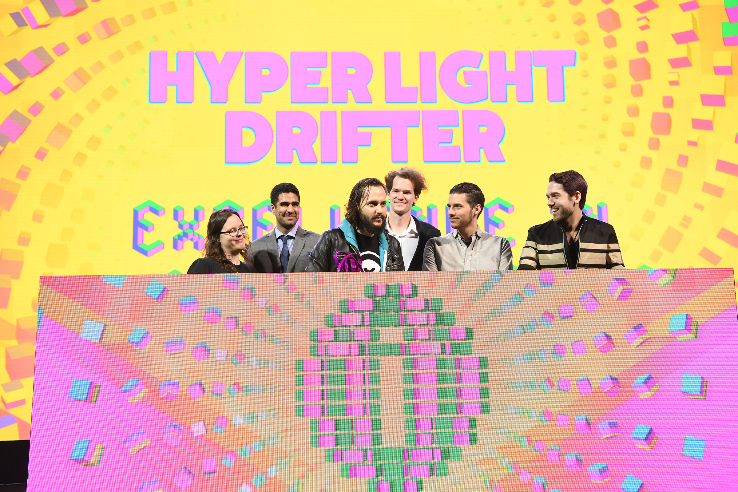 The Heart Machine team (developers for Hyper Light Drifter) at the 2017 Game Developers Conference (Feb 28-Mar 3, 2017), being awarded an Independent Games Festival Award